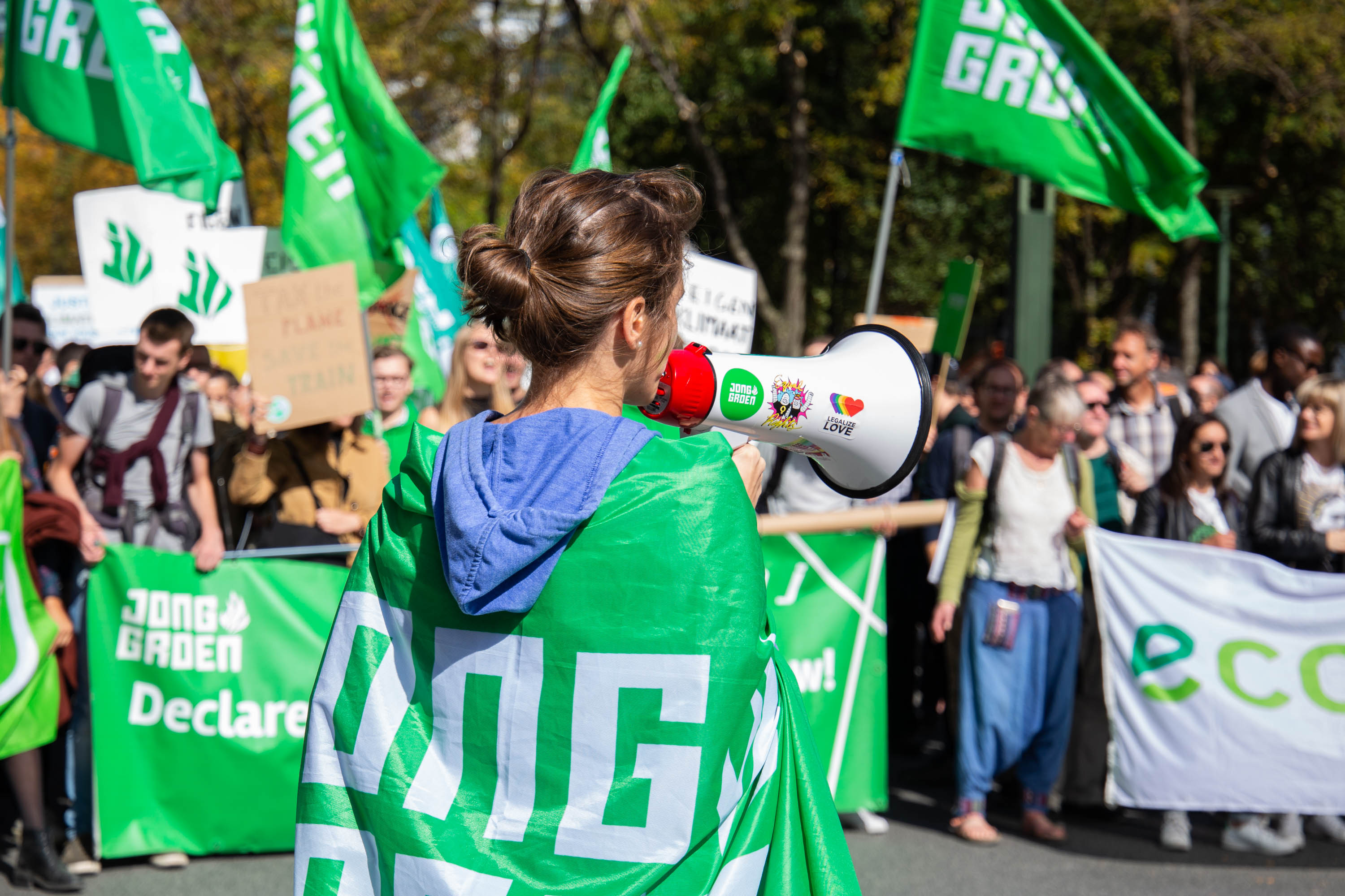 Brussels, 20/09/19 Photo credit: © JC Claveria / European Greens We joined young strikers on the streets of Brussels to demand world leaders listen to our demands for climate justice and take urgent action NOW!